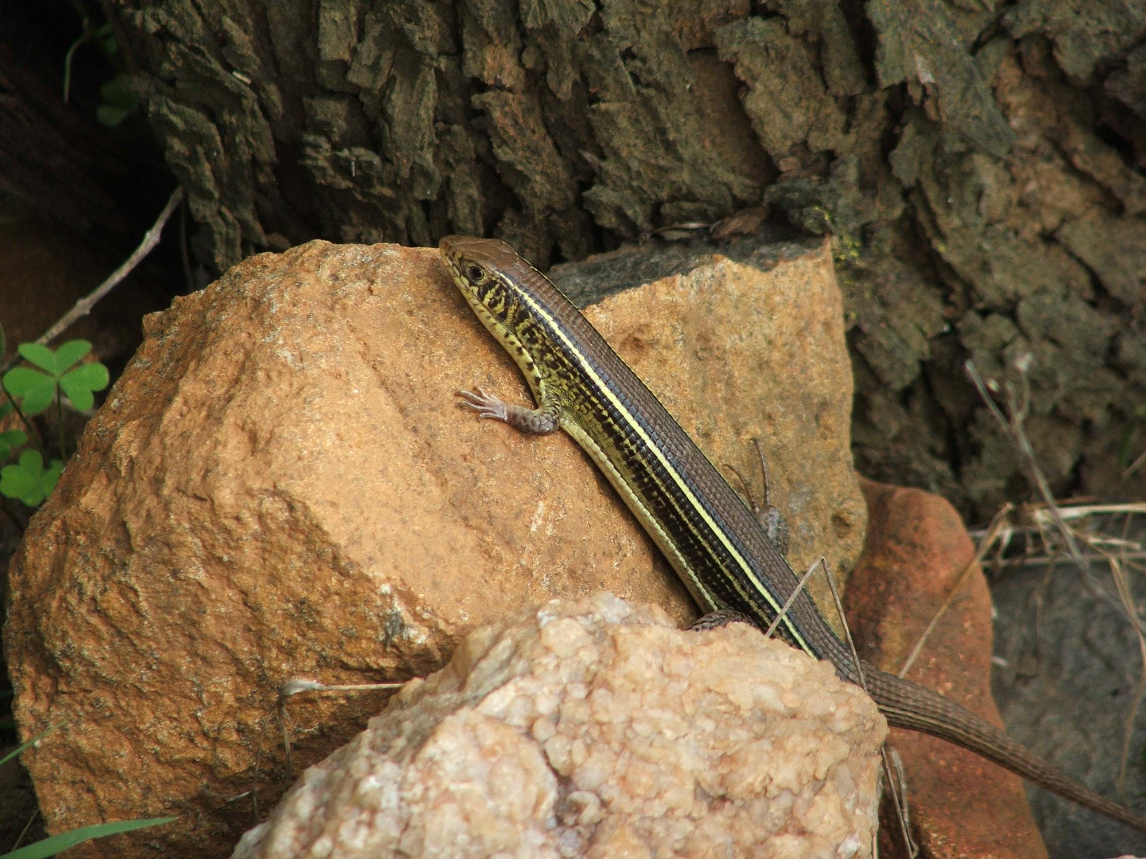 Yellow-throated Plated Lizard. Picture taken in the Magaliesberg in South-Africa